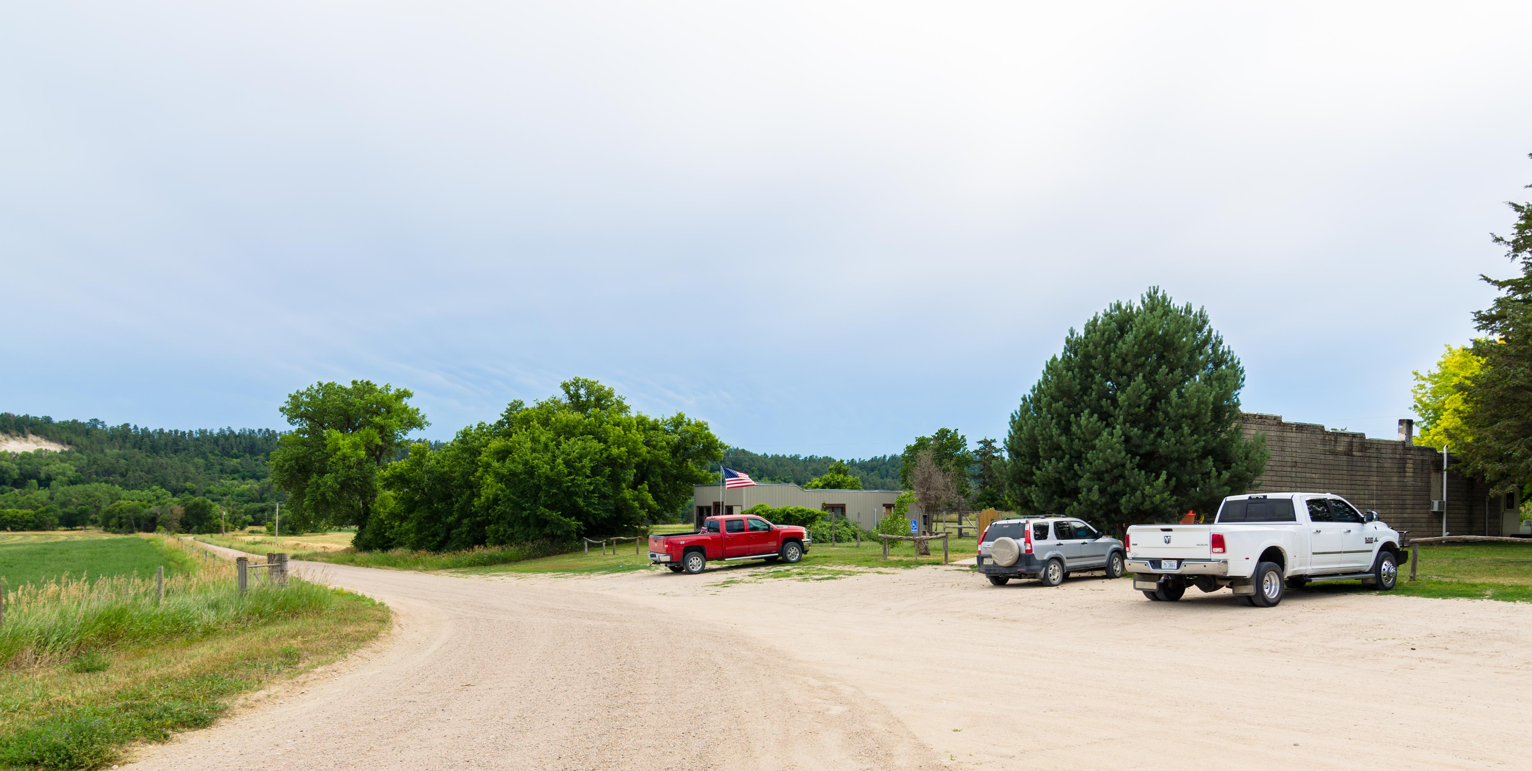 Meadville Road